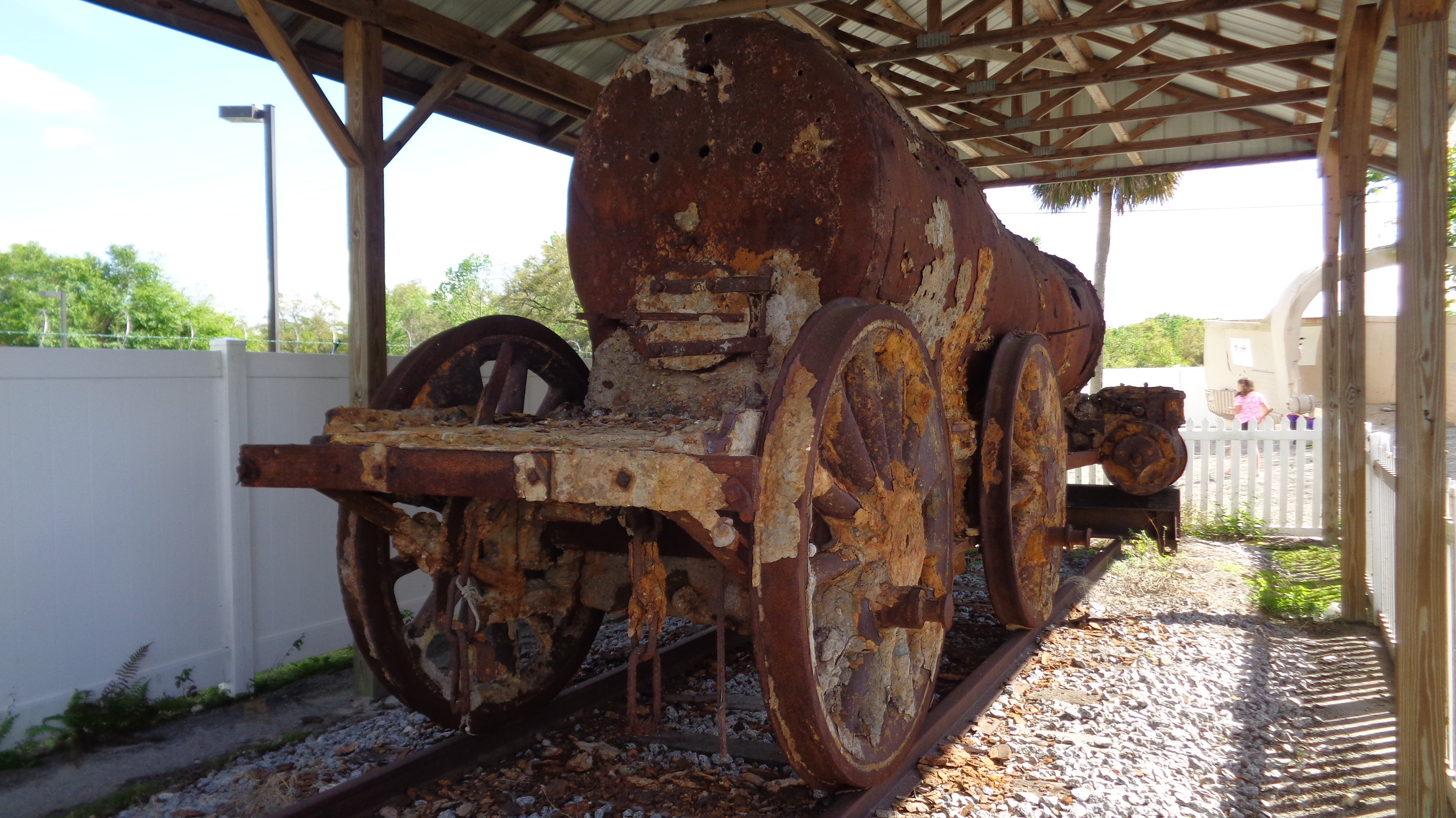 Remains of a 4-4-0 steam locomotive built by Manchester Locomotive Works in the 1880s at the Mulberry Phosphate Museum in Mulberry, Florida. As of 2019, it is one of only two extant steam locomotives built in the 19th century located in the state.